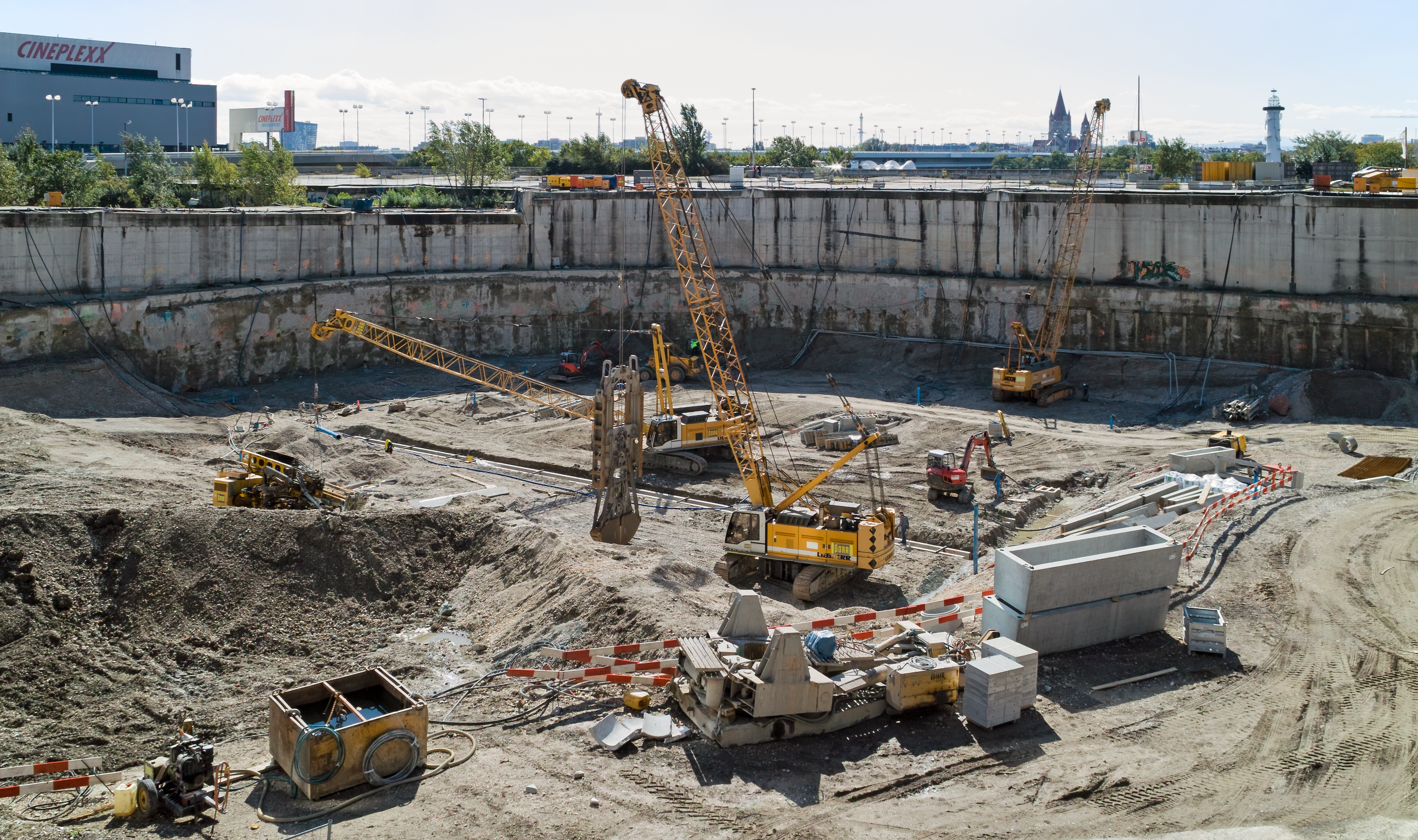 Construction of the DC Tower 1 in the Donau-City, Vienna from north on September 27th, 2010.